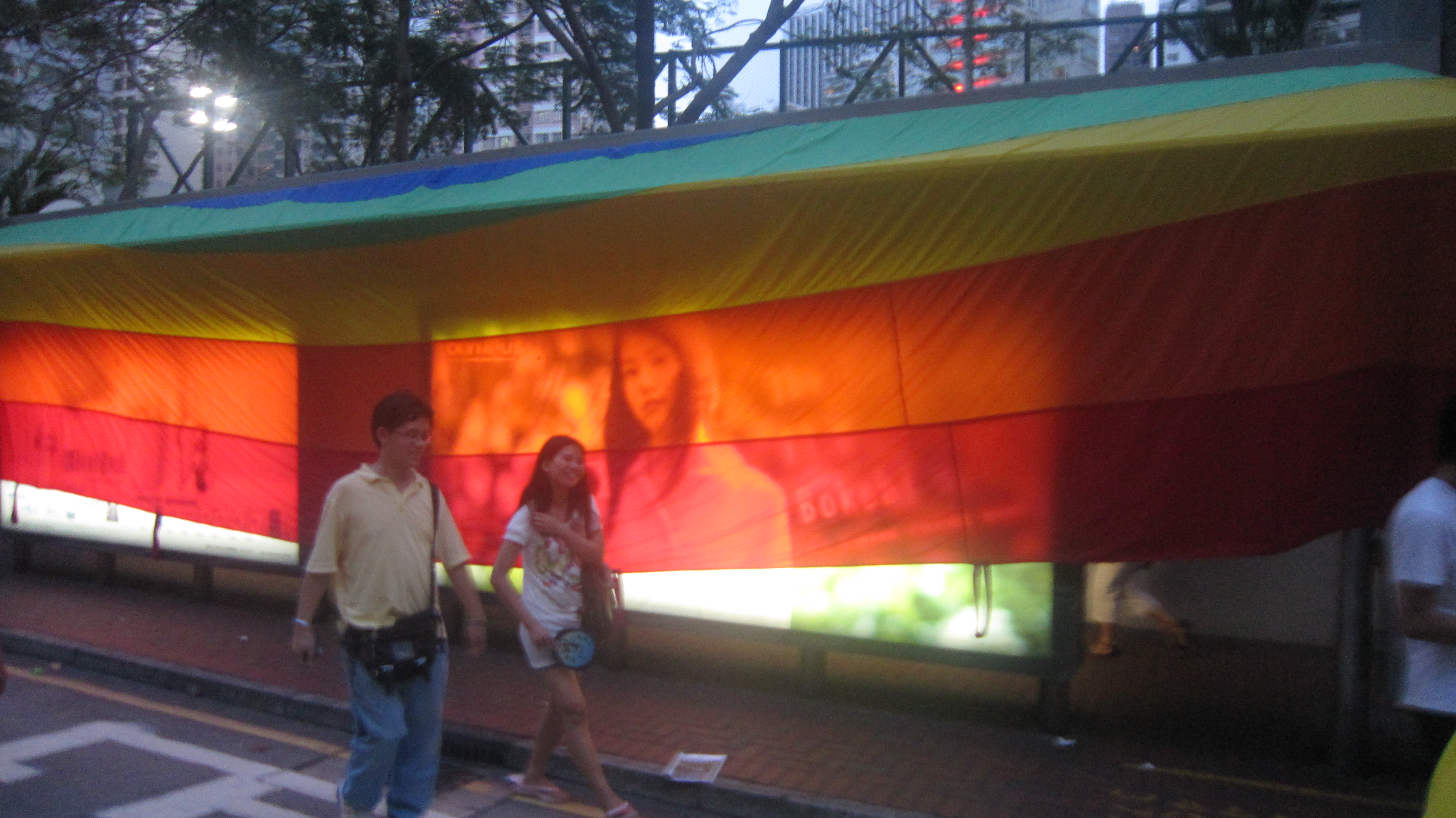 Rainbow Flag at Southorn Playground